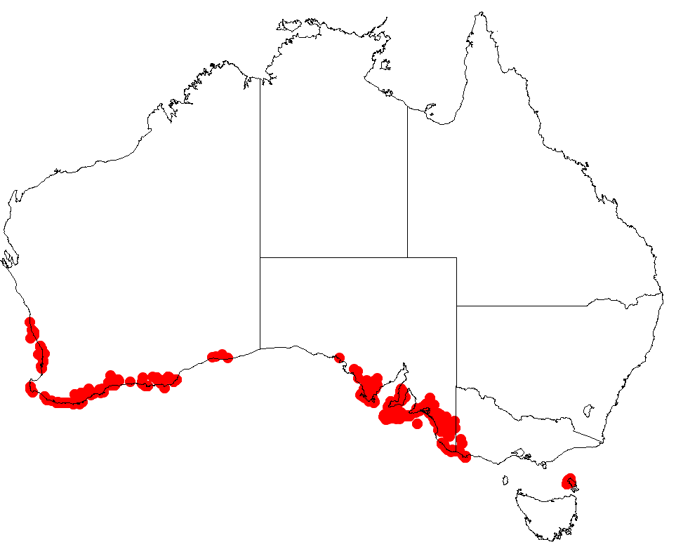 Acrotriche cordata Occurrence data from Australasian Virtual Herbarium downloaded 23 November 2018 using